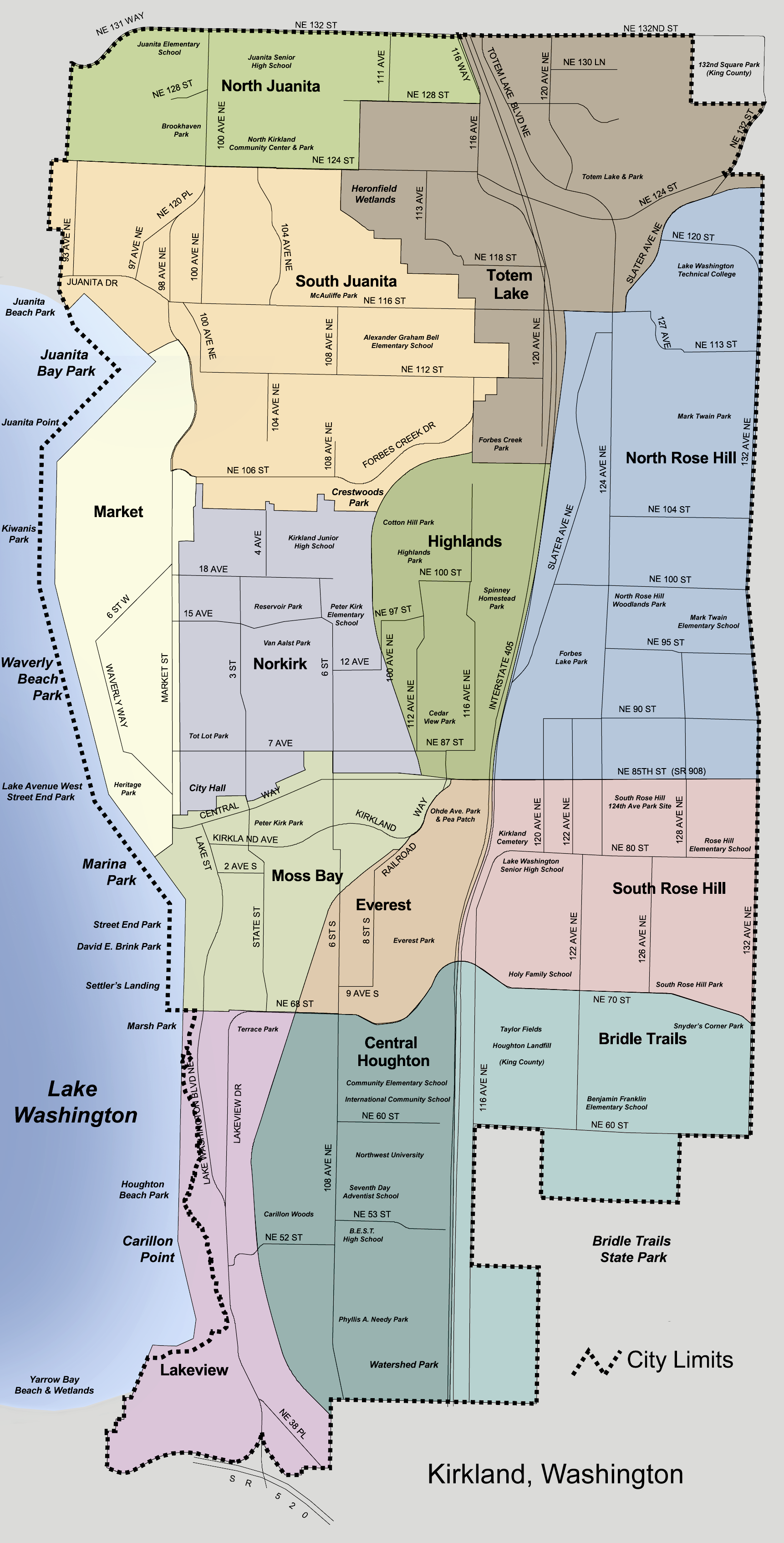 Map of Kirkland. Created by Mad Max, June 04, 2006. I used information available at the city's official website ( and the city outline based on the image here. If I missed a notable location which you believe should be on the map please notify me on my talk page. Thank you.